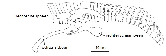 Reconstruction of articulated dorsal series, sacrum and right pelvic girdle of Olorotitan arharensis Godefroit, Bolotsky & Alifanov, 2003. Upper Cretaceous of Kundur, Russia